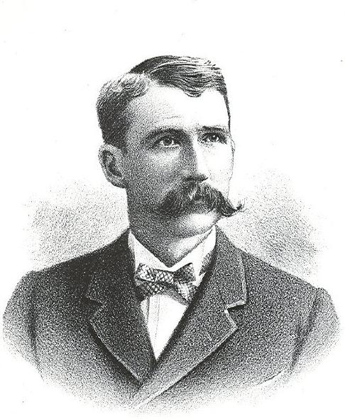 Aurora History Archives